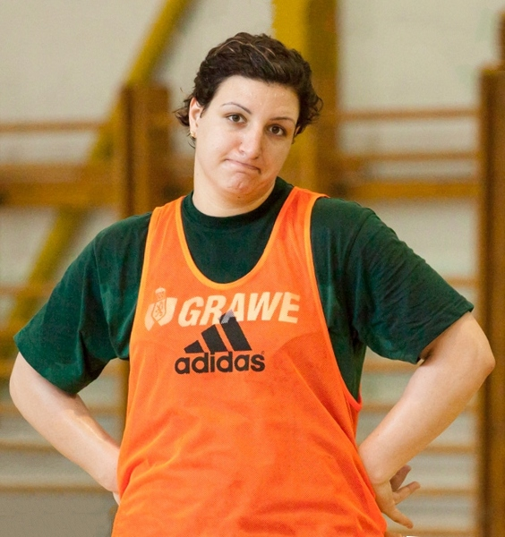 Hungarian handball player Szabina Mayer during a training session.